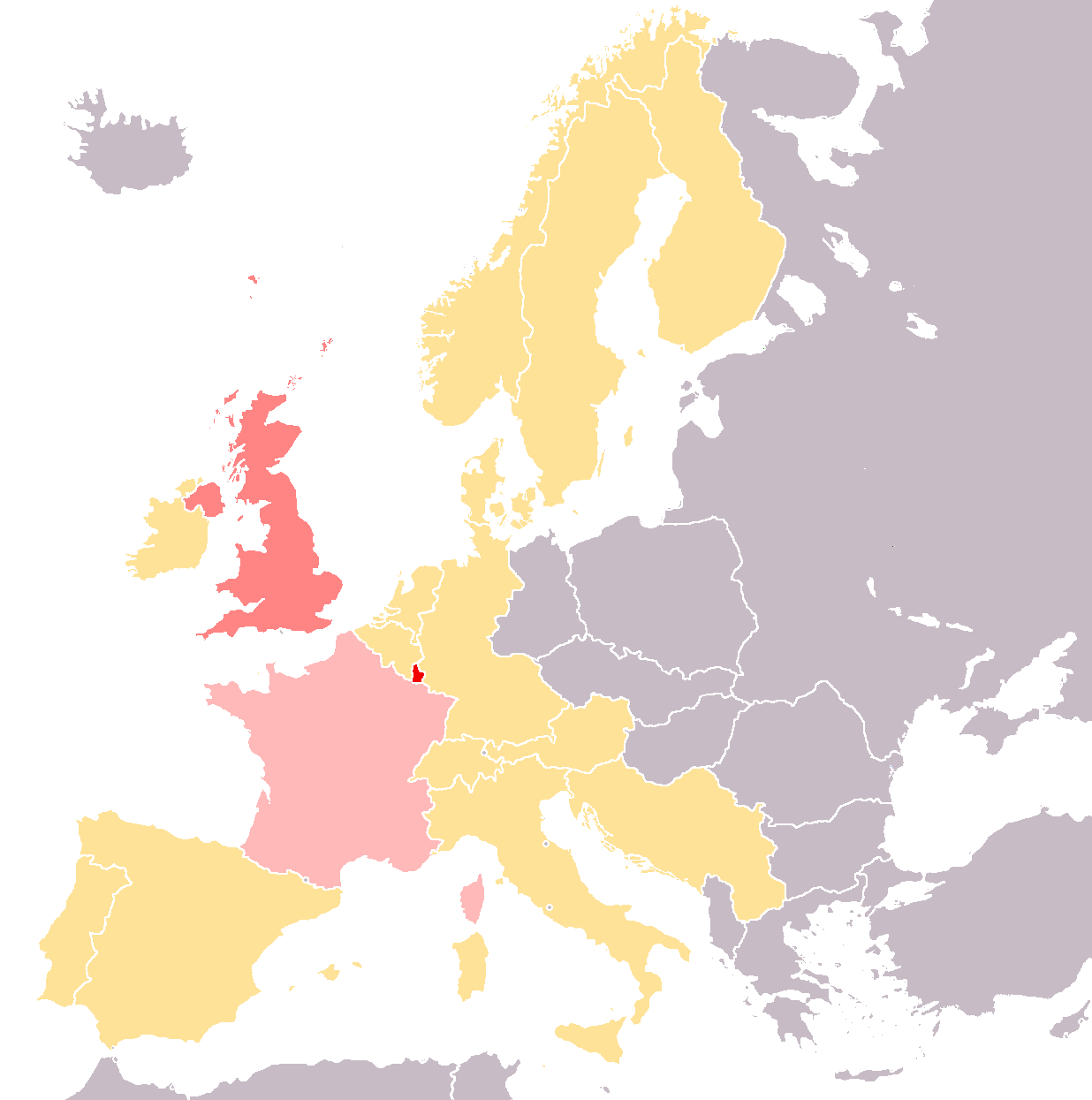 Map of Eurovision 1965